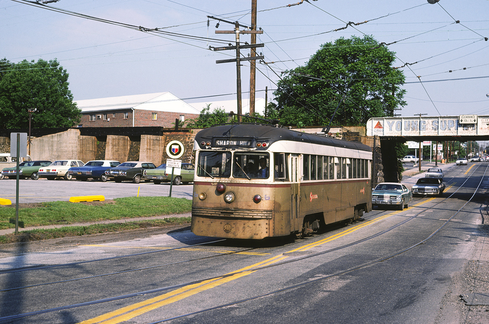 SEPTA Brilliner #6, formerly Red Arrow, is outbound toward Sharon Hill on Springfield Rd at Woodlawn in May of 1976.